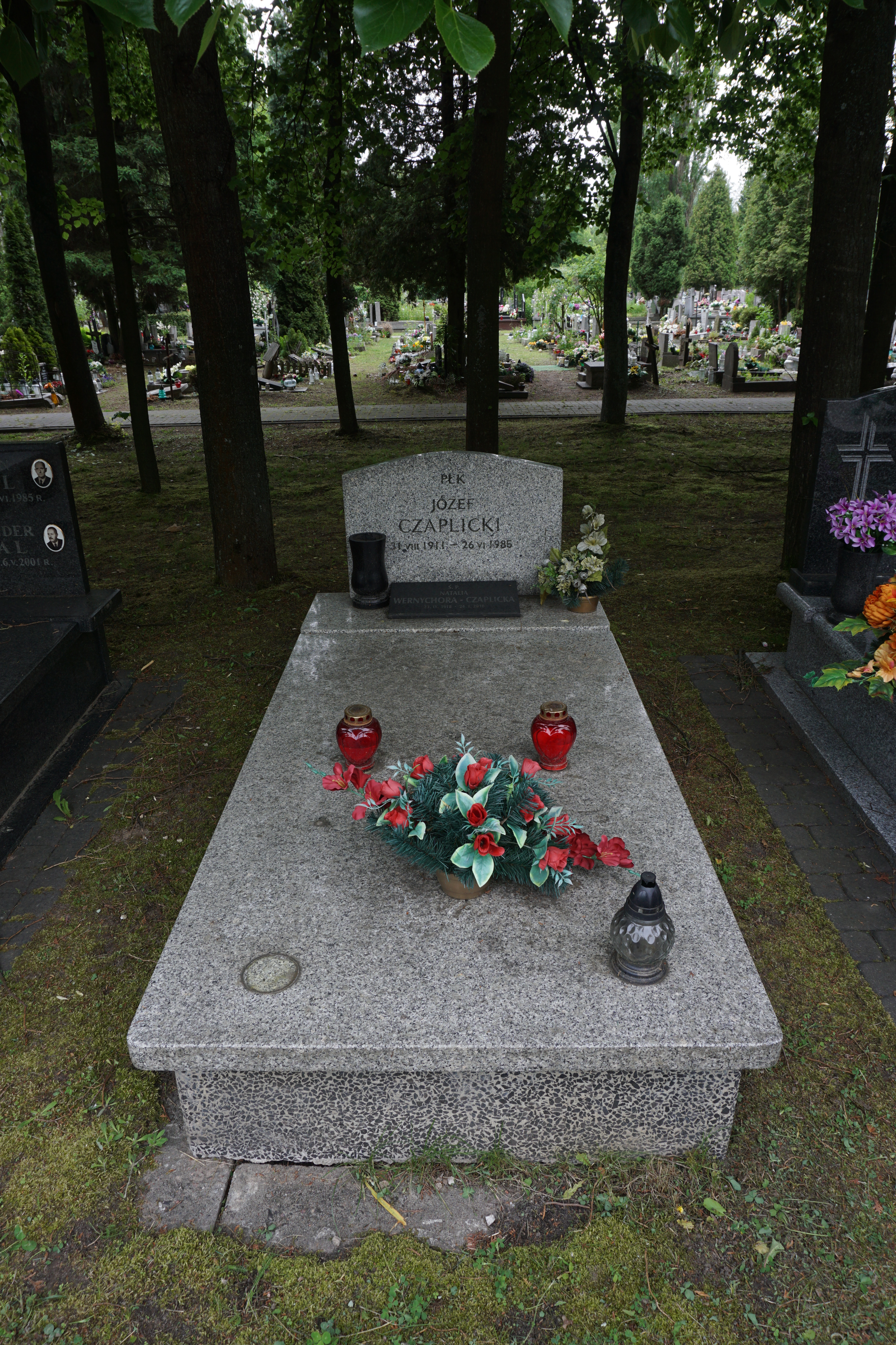 The grave of Józef Czaplicki at the North Municipal Cemetery in Warsaw (section E-XIII-1, row 3, grave 12)